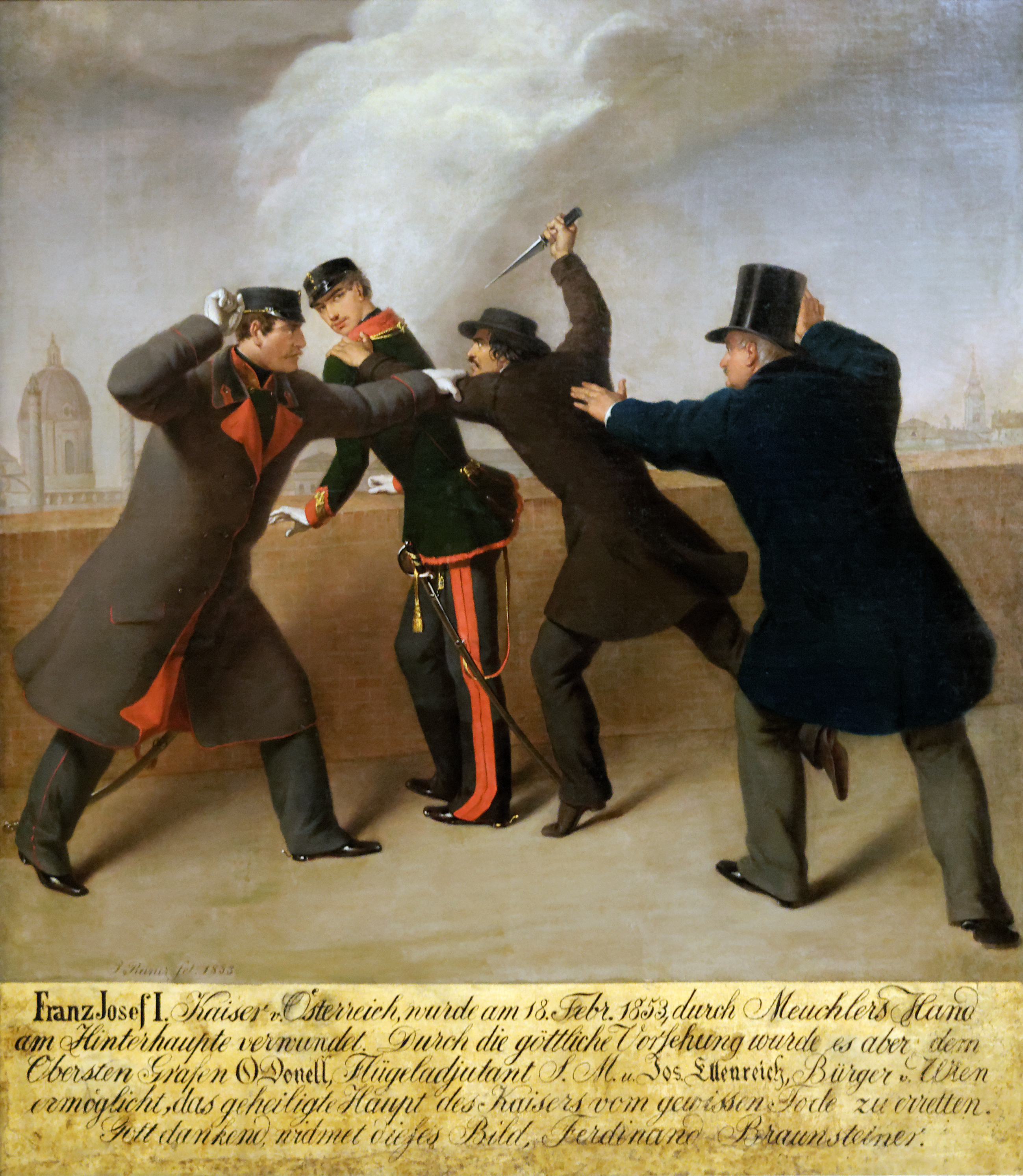 Oil painting by J. J. Reiner of the assassination attempt on Austrian Emperor Franz Joseph, 1853)